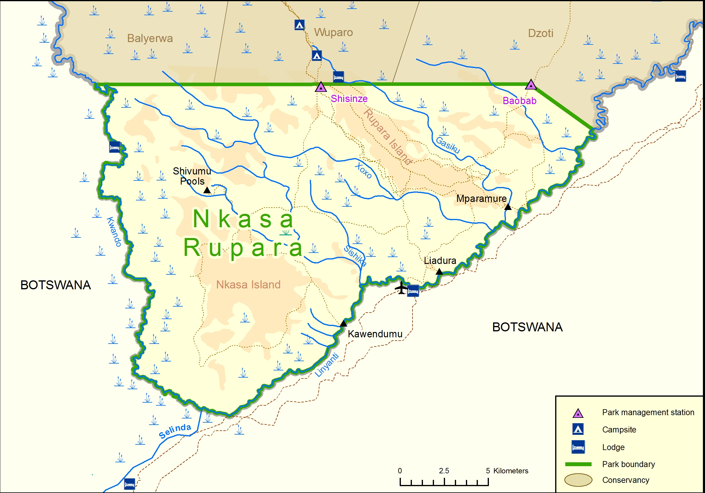 Official Map of Nkasa Rupara National Park 2013